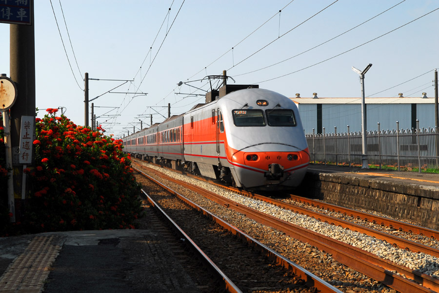 LinFongYing Station is a local train station of Taiwan's Western main rail line. It's the main station of LiuJia Township, TaiNan County. This photo shows a Push-Pull Tzu-Chiang Express train approaching the station with high speed. Bân-lâm-gú: Lîm-hōng-iâⁿ Tshia-tsām sī Tâi-thih tsòng-kuàn-suànn ê tsi̍t-tsō tē-hng tshia-tsām. I sī Tâi-lâm-tshī La̍k-kah-khu ê tsú-iàu tshia-tsām. Siòng-phìnn sóo hip ê sī tsi̍t tâi Tsū-kiông-hō liat-tshia í ko-sok tsiap-kīn tshia-tsām ê uē-bīn. 林鳳營車站是臺鐵縱貫線的一座地方車站，伊是臺南市六甲區的主要車站，相片所翕的是一臺推拉式自強號以高速接近車站的畫面。